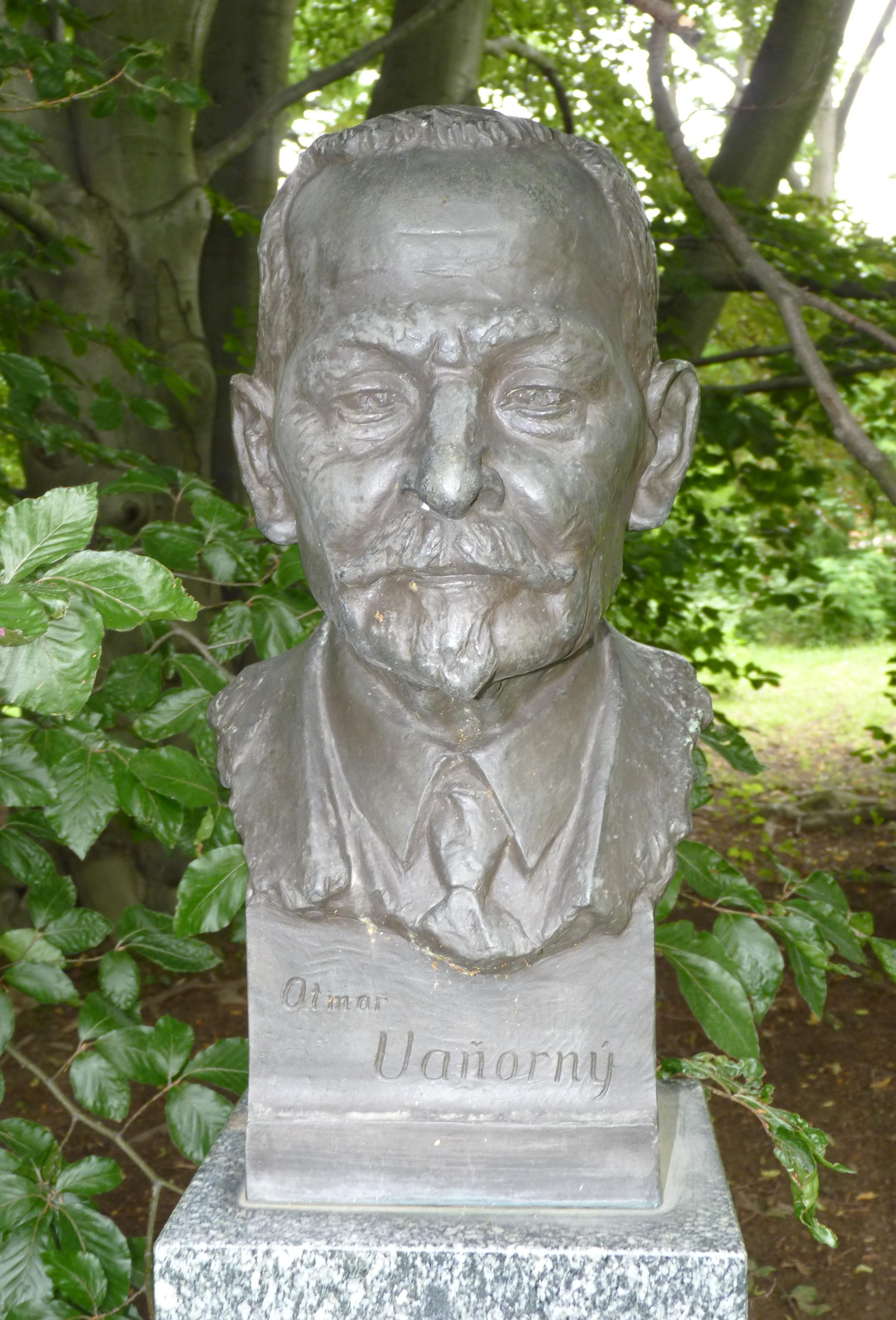 Holy Trinity Church in Rychnov nad Kněžnou, Rychnov nad Kněžnou District, Hradec Králové Region, Czech Republic